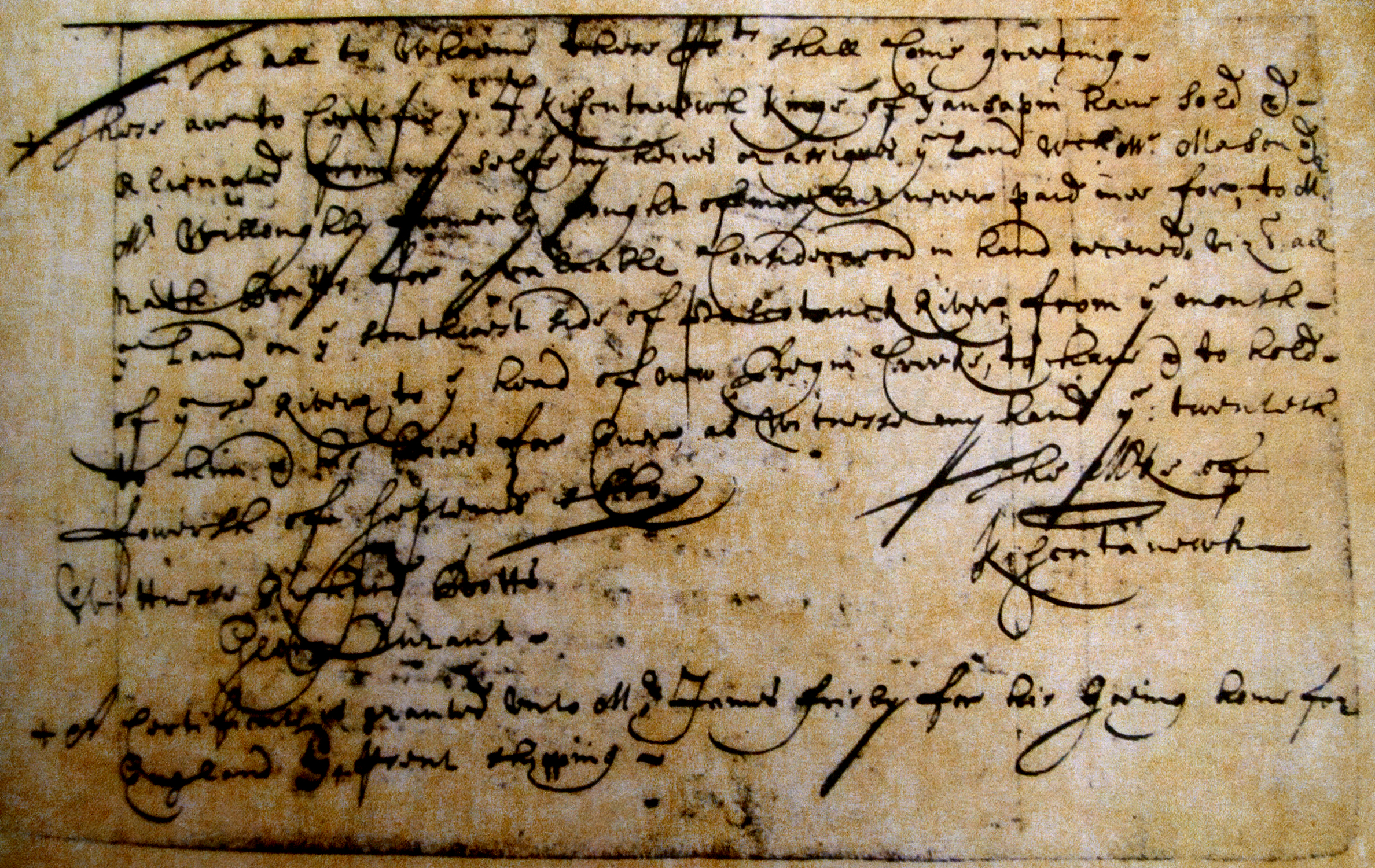 Earliest recorded deed for land in what is now North Carolina. Pasquotank County, North Carolina Register of Deeds, Deed Book 286:240 and Norfolk County (now City of Chesapeake), Virginia Register of Deeds, Deed Book D:293. "To all to whoeme these presents shall Come greeting. These are to Certifie yt I Kiscutanewh Kinge of Yausapin have Sold & Alienated from my self my heires or assignes ye Land wch Mr. Mason & Mrs. Willoughby formerly bought of mee, but never paid mee for, to Mr. Nath. Batts for a valuable Consideration in hand received, viz &: all ye Land on ye southwest side of Pascotanck River, from ye mouth of ye Sd River to ye head of new Begin Creeke, to have & to hold to him & his heires for Ever, as Witnesse my hand ye twenteth fowerth of September 1660. The Mke of Kiscutanewh Wittnesse Richard Batts George Durant"